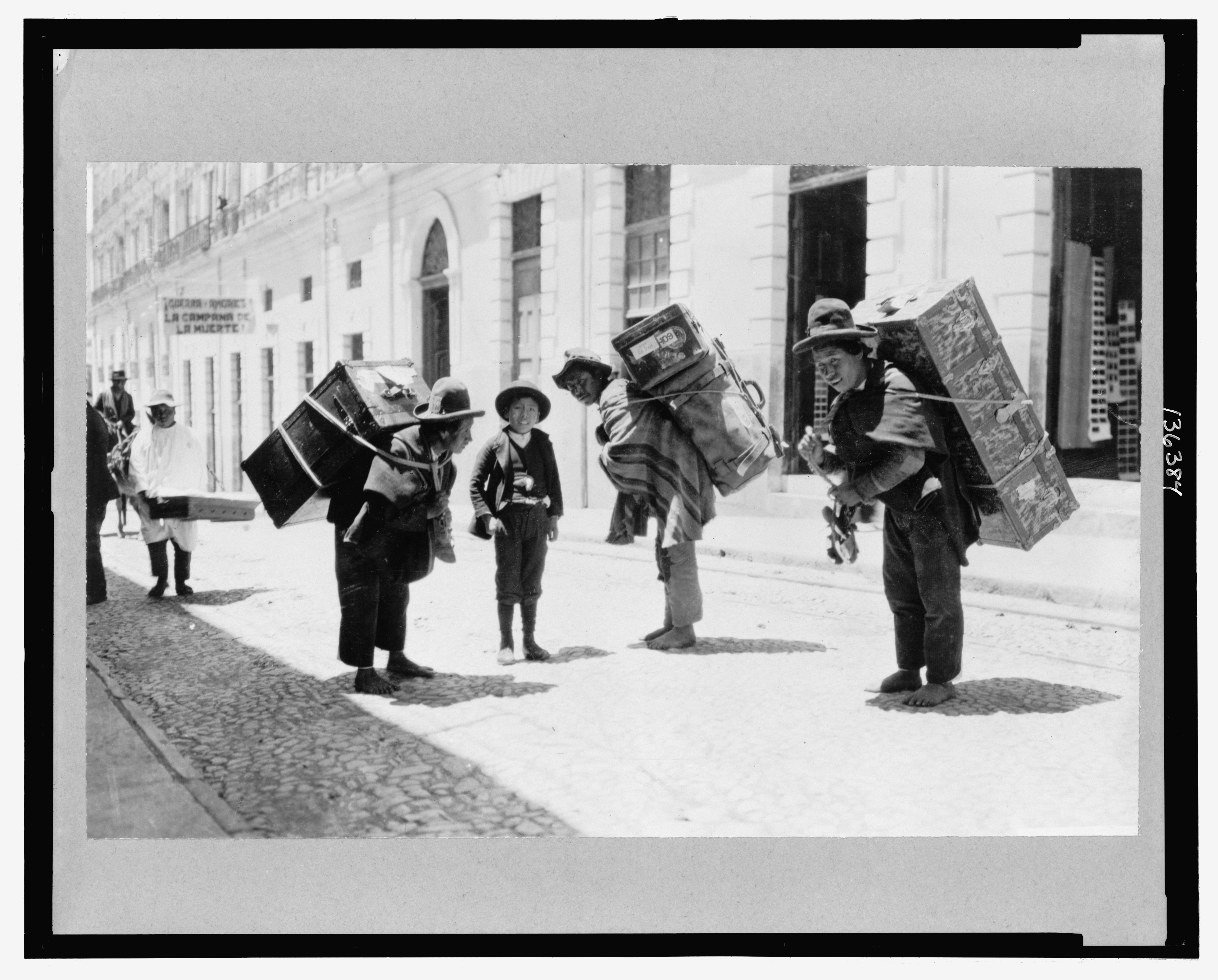 Title: Porters carrying trunks on their back on a street in La Paz, Bolivia Physical description: 1 photographic print. Notes: Copyright by Carpenter's World Travels.; Forms part of: Frank and Frances Carpenter Collection (Library of Congress).; Title devised by Library staff.